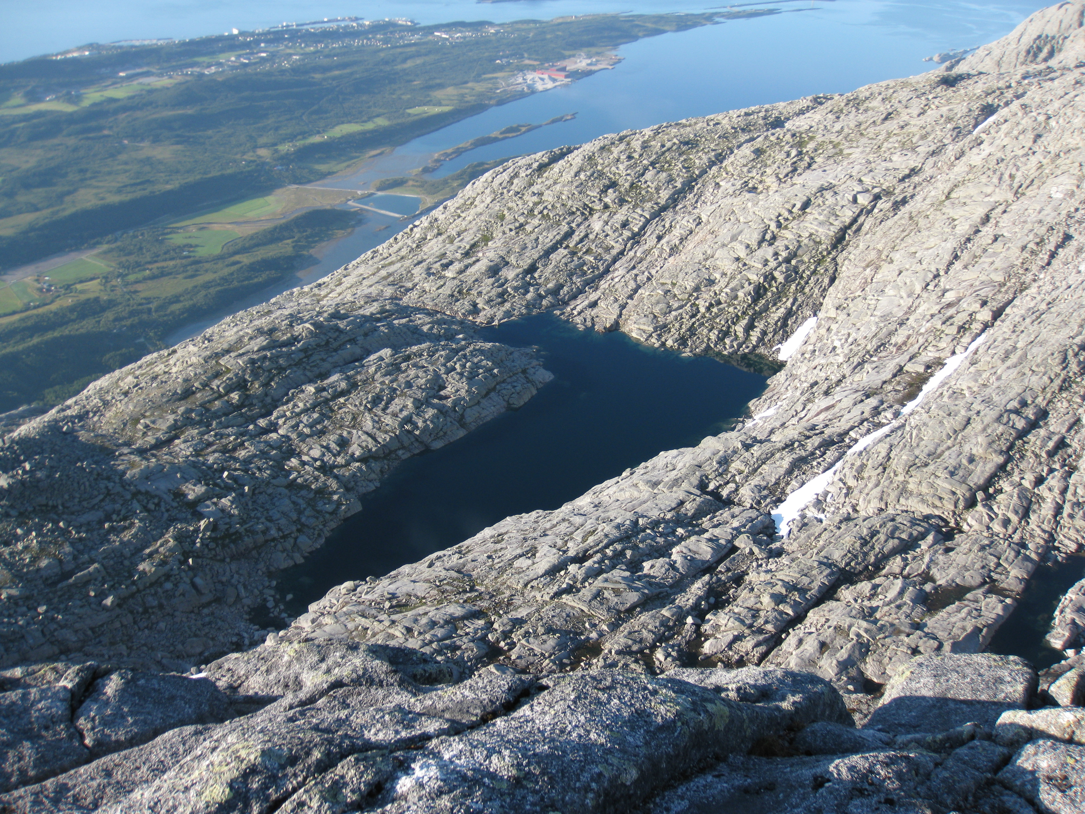 Breimovatnet in the Seven Sisters mountain range in Northern Norway